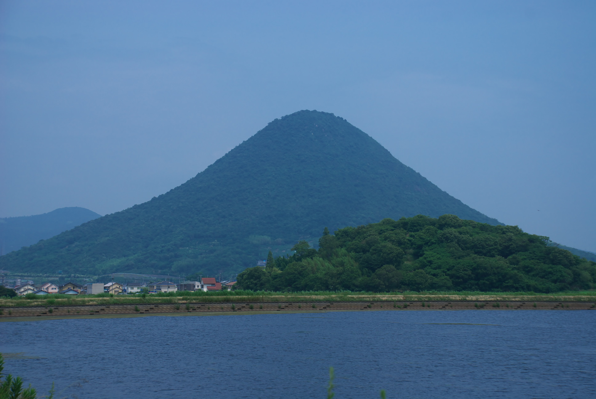 飯野山（讃岐富士） Reprint from Flickr